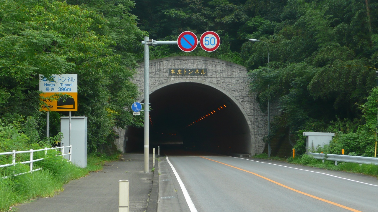 Honjo Tunnel (Miyazaki Prefectural Road No.24 - Kunitomi Town, Miyazaki, Japan)